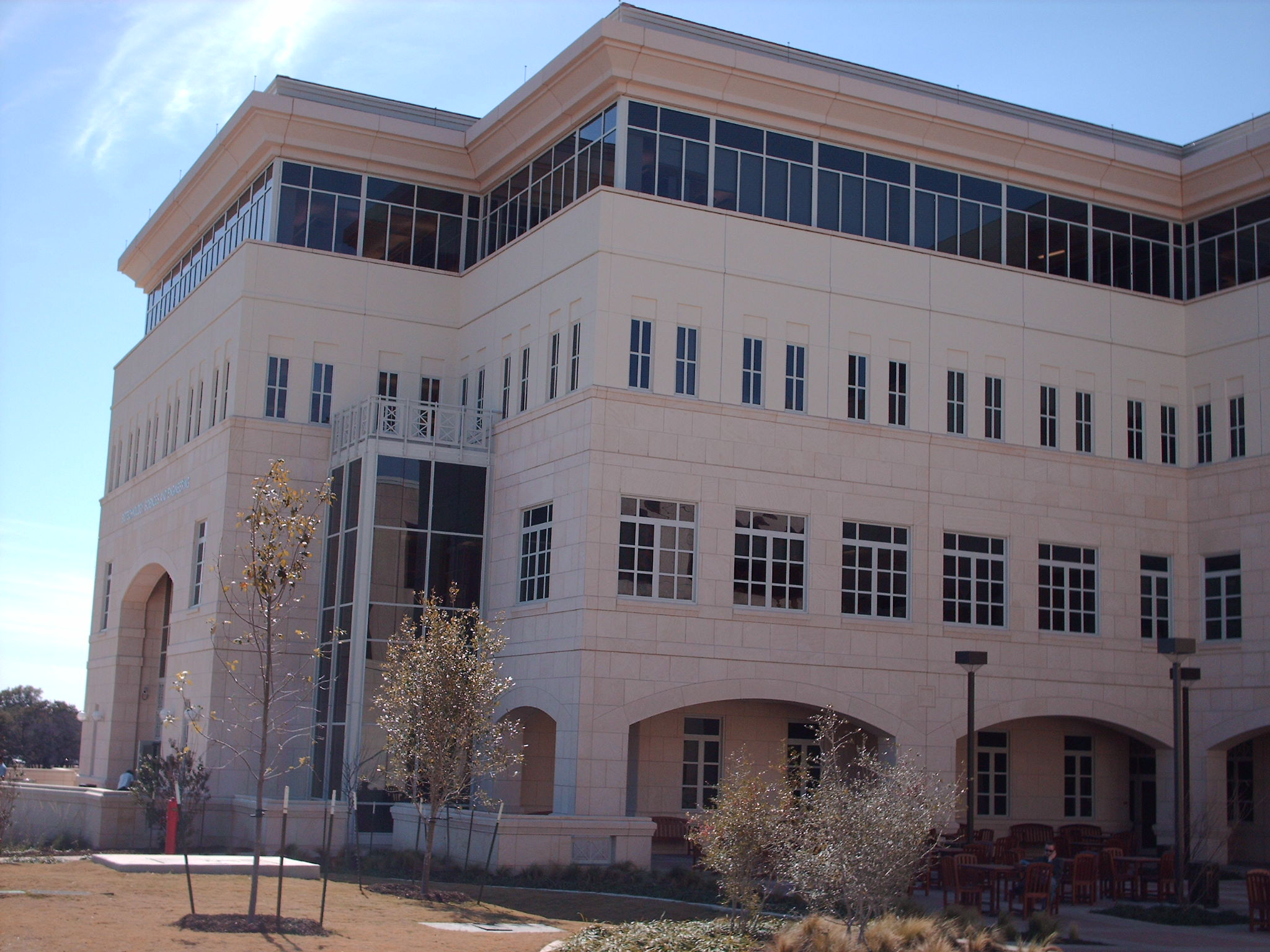 The Biotechnology, Sciences, and Engineering building at the University of Texas at San Antonio